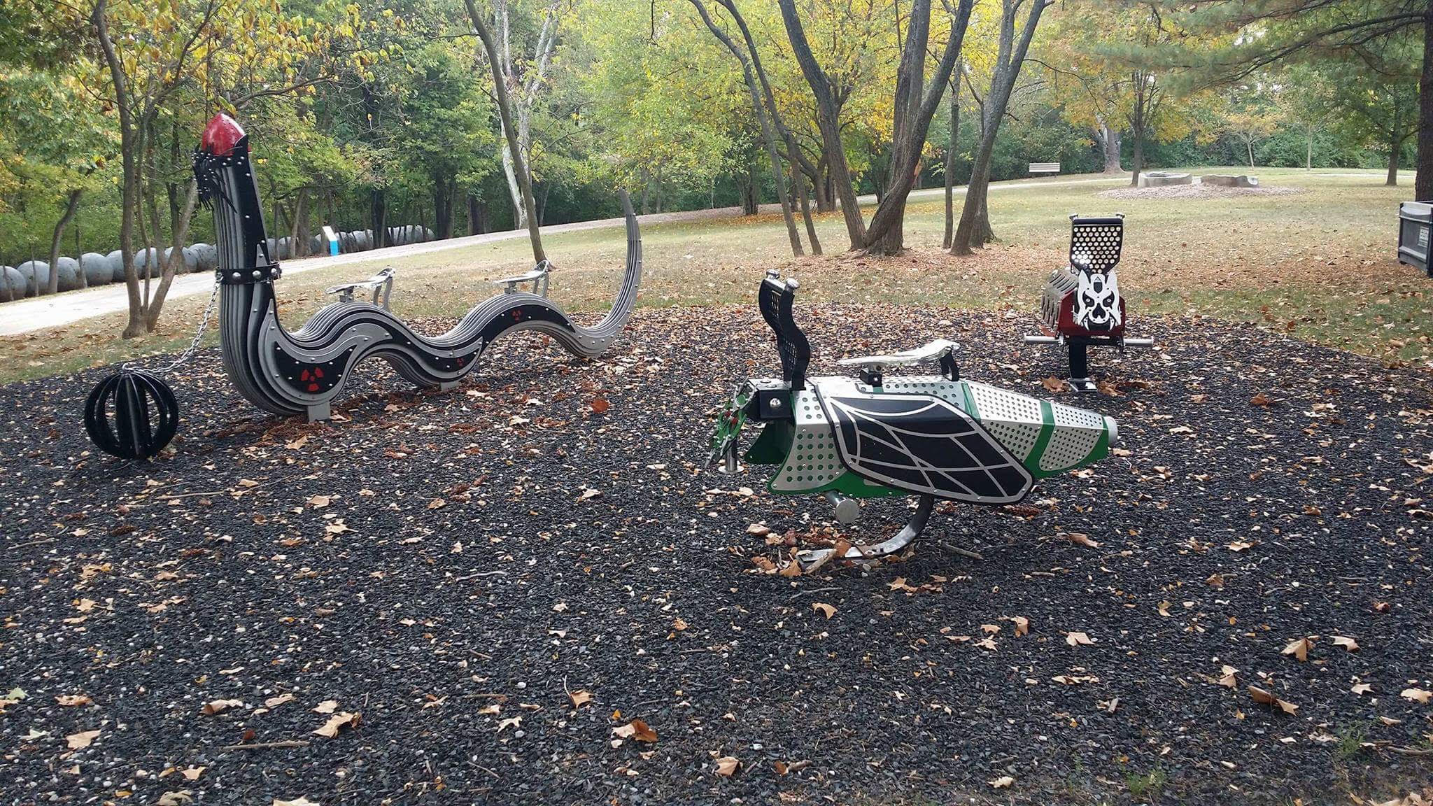 Photo of playground equipment made by artist Tom Huck